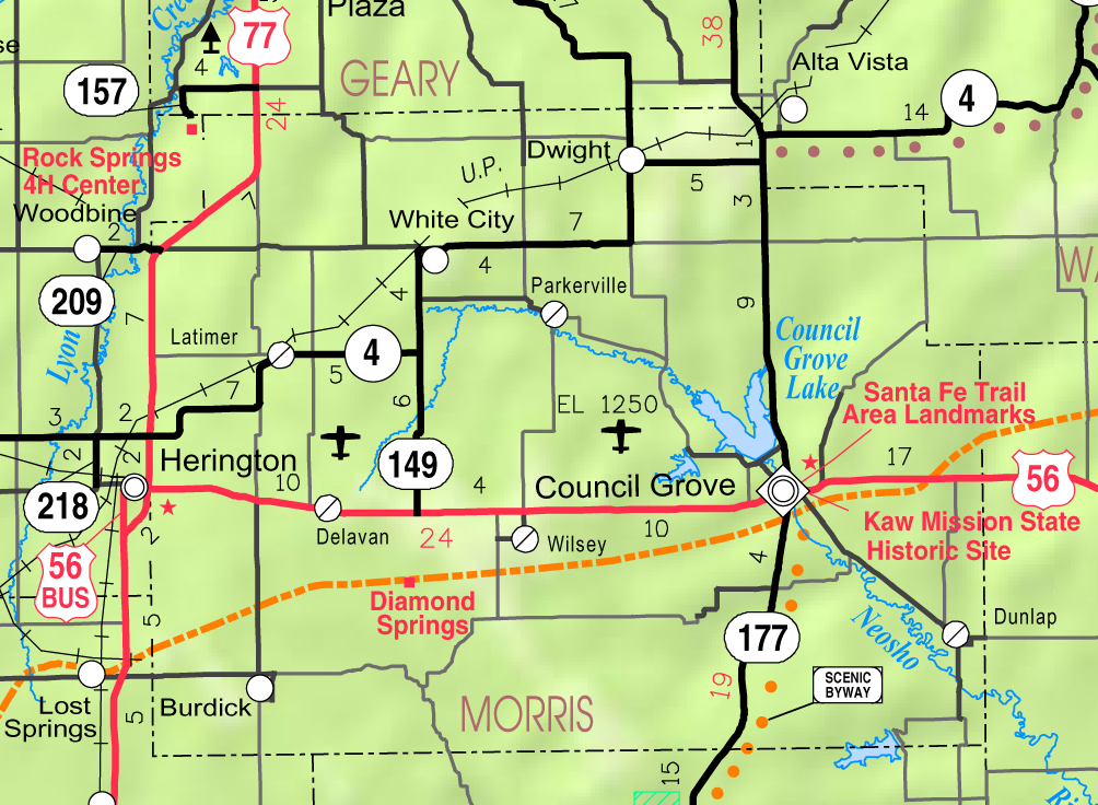 This map of Morris County, Kansas, USA, is copied at a resolution of 300 pixels/inch from the original PDF file.